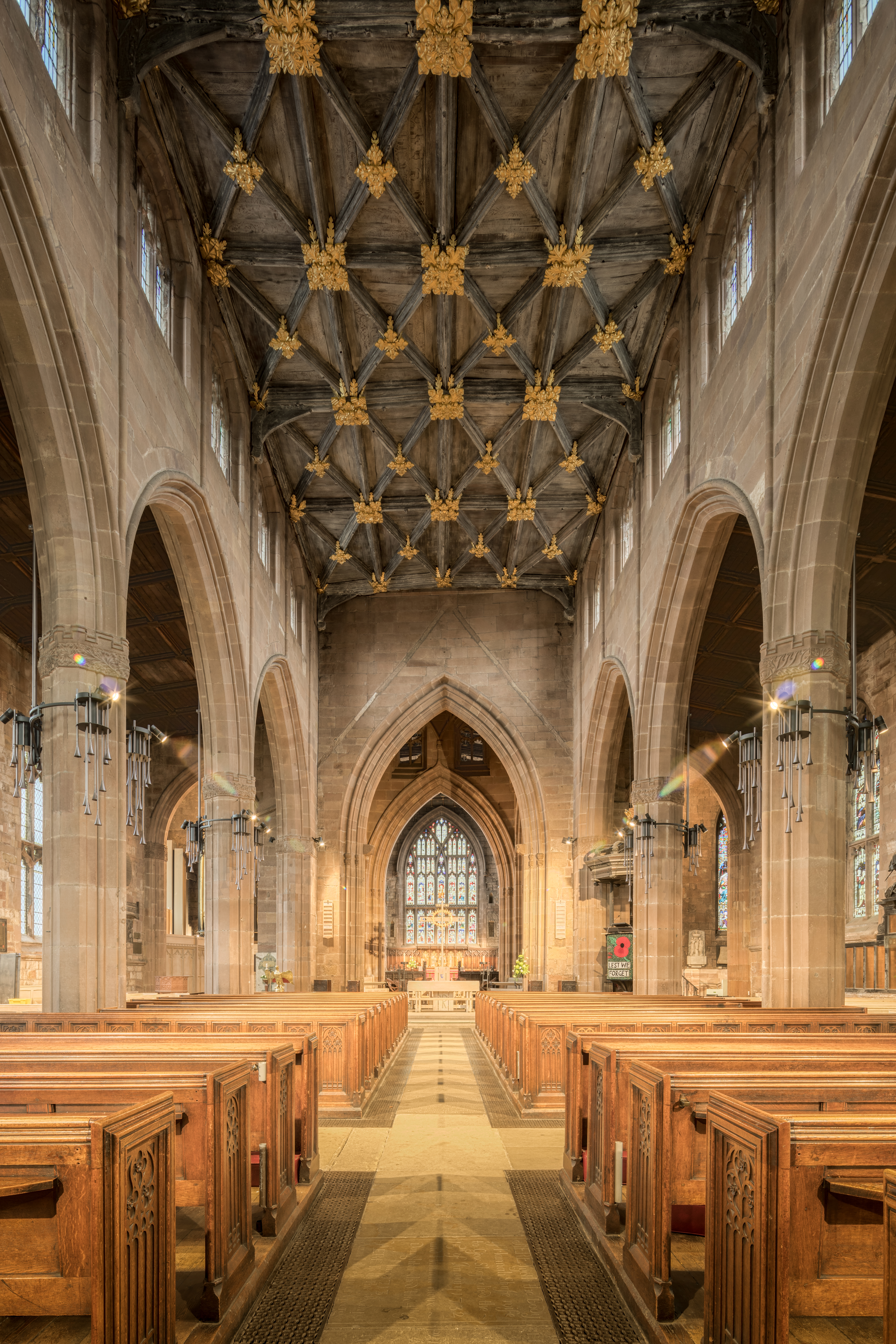 Here is an hdr photograph taken from inside Rotherham Minster. Located in Rotherham, Yorkshire, England, U.